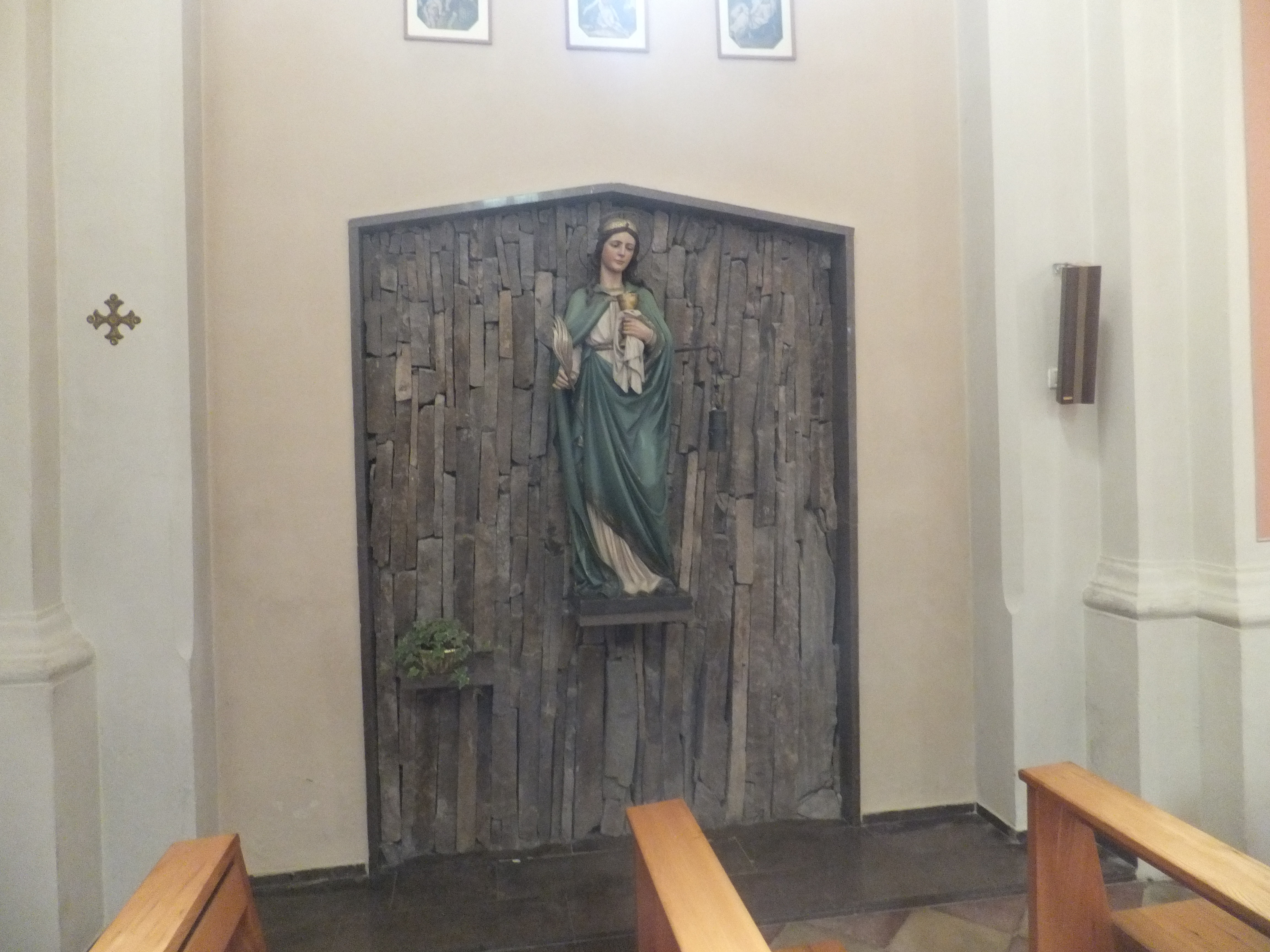 Lases (Lona-Lases), church of the Visitation of Mary - Interior - Statue of Saint Barbara